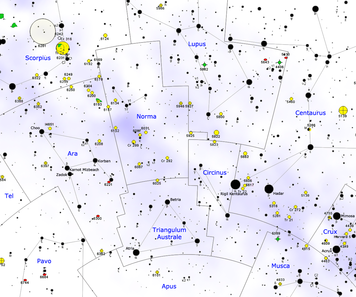 Map of Circinus, Norma and Triangulum Australe